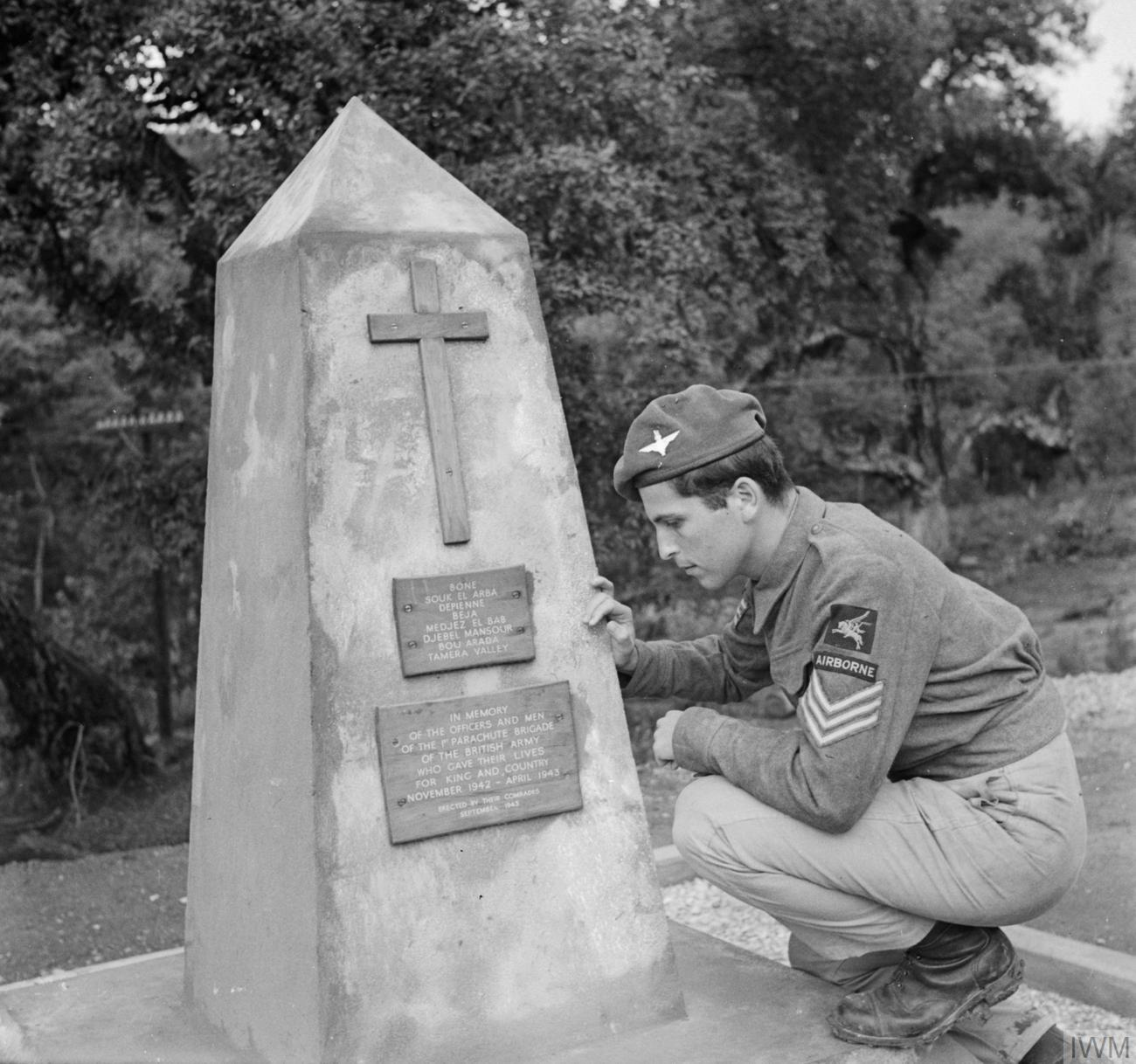 The British Army in Tunisia 1943 Sgt M Lewis of the 2nd Parachute Battalion examines a memorial to the 1st Parachute Brigade on the Nefza-Sedjenane road in the Tamara Valley, 14 October 1943.